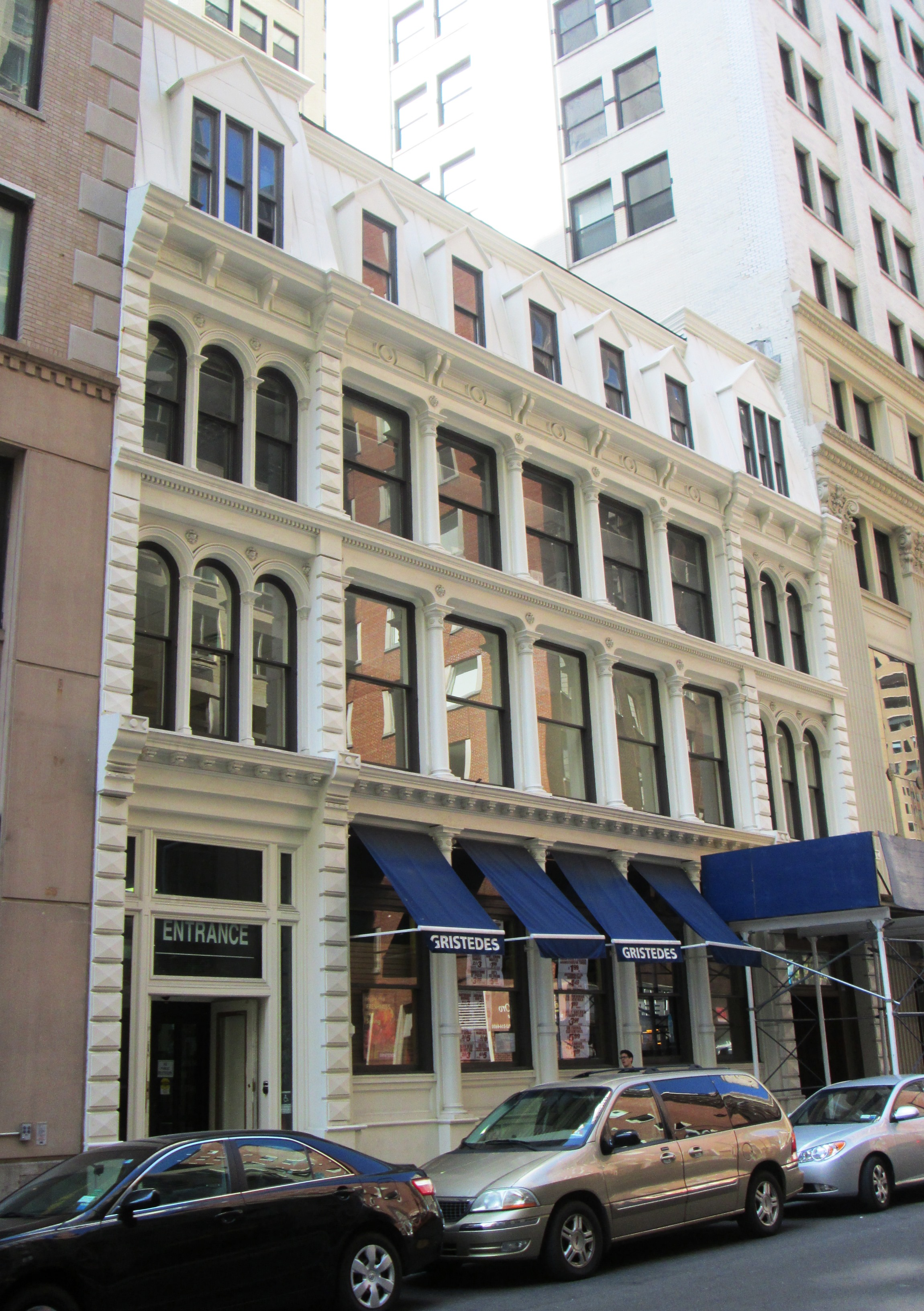 90-94 Maiden Lane at Gold Street, between William and Pearl Streets in the Financial District of Manhattan, New York City, was built in 1870-71 in the French Second Empire style and is attributed to Charles Wright. It has a cast-iron façade from Daniel D. Badger's Architectural Iron Works, and is one of the handful of mid-19th century commercial buildings extant in Lower Manhattan. The building's façade was commissioned by Roosevelt & Son, the leading plate glass and mirror importer; Theodore Roosevelt, the father of the 26th U.S. President, was one of the company's principals. Unlike most other buildings of its sort, it has not been converted into condominium apartments, and is still in use as a commercial building. (Sources: AIA Guide to NYC (5th ed.) and Guide to NYC Landmarks (4th ed.))